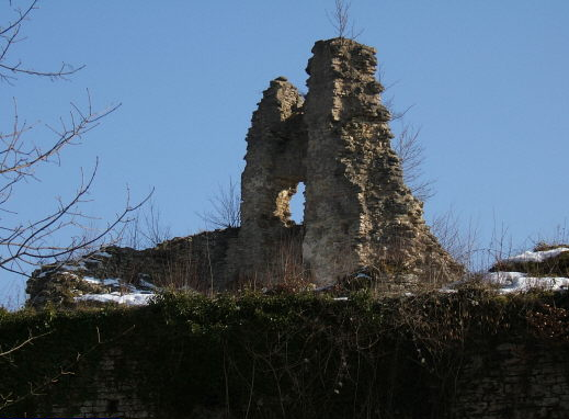 Ruins of Castle of Morimont (Chateau du Morimont, Burg Moersberg), Alsace, France